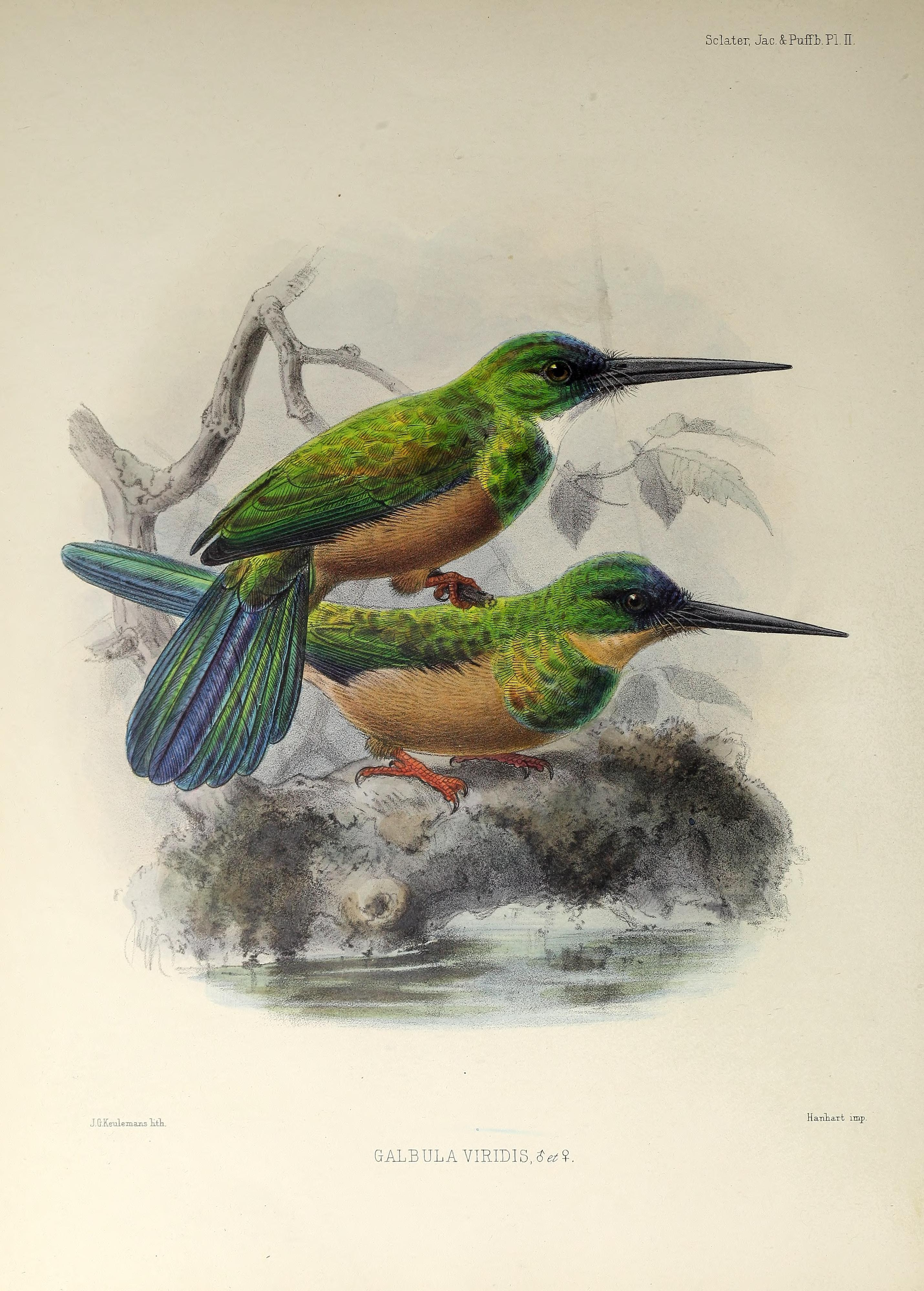 Title: A monograph of the jacamars and puff-birds, or families Galbulid and Bucconid Year: 1882 (1880s) Authors: Sclater, Philip Lutley, 1829-1913 Sclater, Philip Lutley, 1829-1913 Subjects: Bucconidae Jacamars Publisher: London, Published for the author by R.H. Porter (etc.) Text Appearing Before Image: the iris is marked dark brown. The following are the dimensions of the specimens before me:— fo. Mus. Patria. Long tota, alee, caudas, rostri a rictu. 1. P.L. S. Upp. Amaz. 130 3-8 6-3 2-7 2. S.-G. Ega. no 3-4 5-7 2-2 The second bird is probably a female. The example figured (No. 1) is the type upon whichthe species was originally based. * Mus. Hein. pars iv. sect. i. p. 217. Sclater, Jac.&Puift.PLII. Text Appearing After Image: J.C-,KeulemaM Itll. Ha-nKaTt imp. GALBULAVIRIDIS,^^^?. GALBULA YIRIDIS. THE GEEEN-TAILED JACAMAE.PLATE II. Galhula, Briss. Orn. iv. p. 86 (1760). The Jacamaciri of Marcgrave, Edwards, Nat. Hist. B. p. 261, pi. 334 (1764). Alcedo galhula, Linn. Syst. Nat. i. p. 182 (1766). Le Jacamar pwprement dit, Buif. Hist. Nat. viii. p. 91, et PI. Enl. 238 (1783). Alcedo galhula, Gm. Syst. Nat. i. p. 459 (1789). Galhula viridis, Lath. Ind. Orn. i. p. 244 (1790). Le Jacamar, And. et Vieill. Ois. Dor. i, Jac. t. i. c?, et Le Jacamar a gorge rousse, ibid. t. ii. $ (1802). Le Jacamar, Levaill. Ois. de Par. ii. p. Ill, tt. 47, 48 (1806). Galhula ruhricollis, Steph. Gen. Zool. ix. p. 224 (1816). Green Jacamar, Lath. Gen. Hist. iv. p. 2 (1822). Galhula viridis, Vieill. Enc. Meth. p. 1326 (1823). Galhula viridicauda, Sw. An. in. Men. p. 327 (1838). Galhula viridis. Gray et Mitch. Gen. B. i. p. 83 (1847). Galhula viridicauda. Cab. in Schomb. Guian. iii. p. 717 (1848). Galhula viridis, Gray, List of Fiss. B.